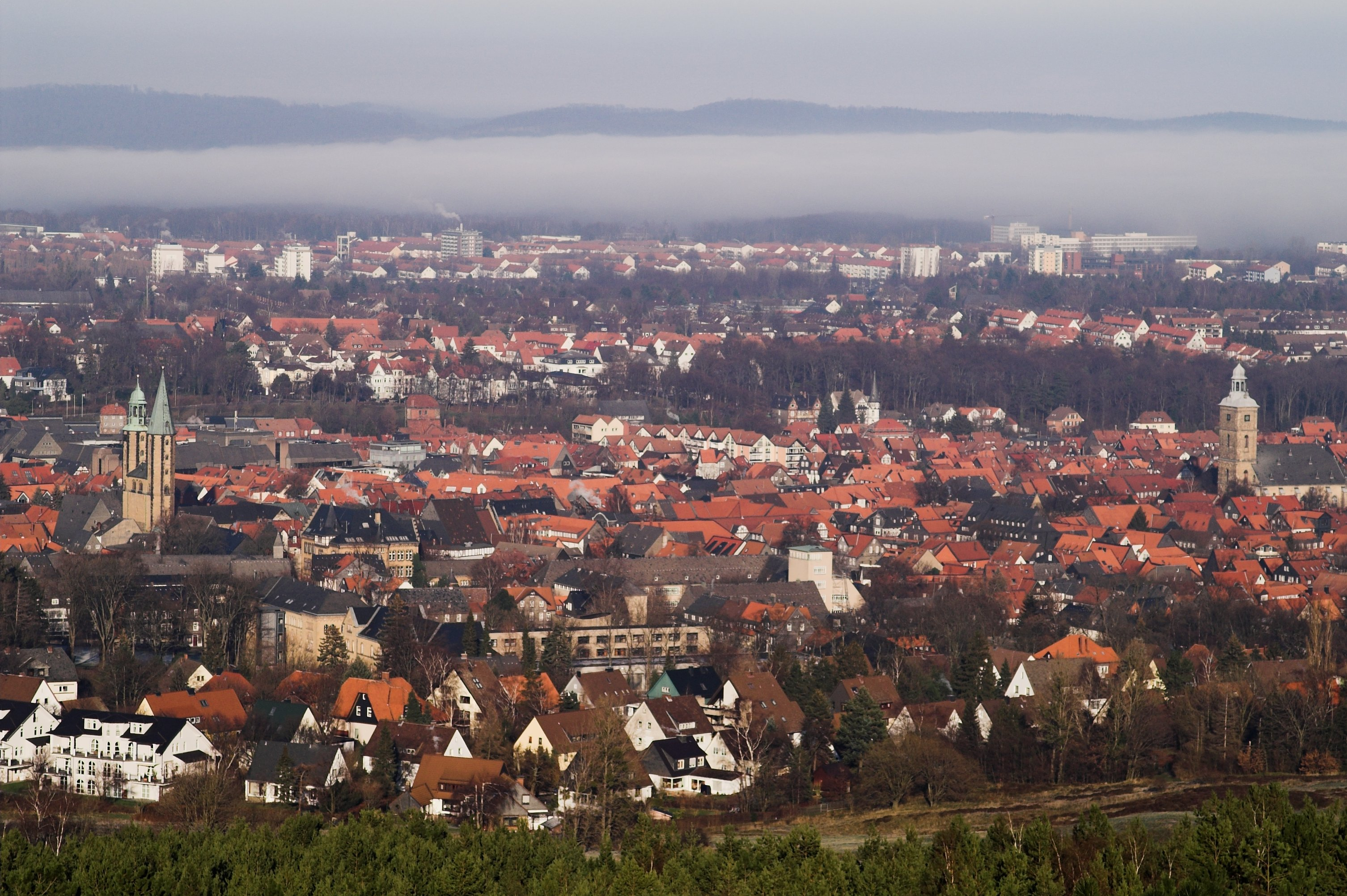 Goslar, Germany, viewed from the Maltermeister tower.